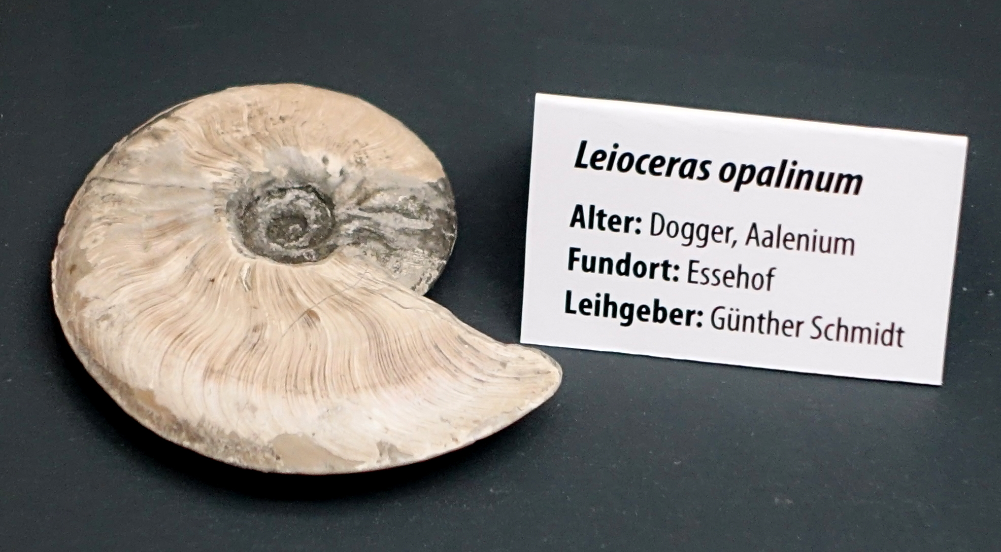 Exhibit in the Naturhistorisches Museum, Braunschweig, Germany.